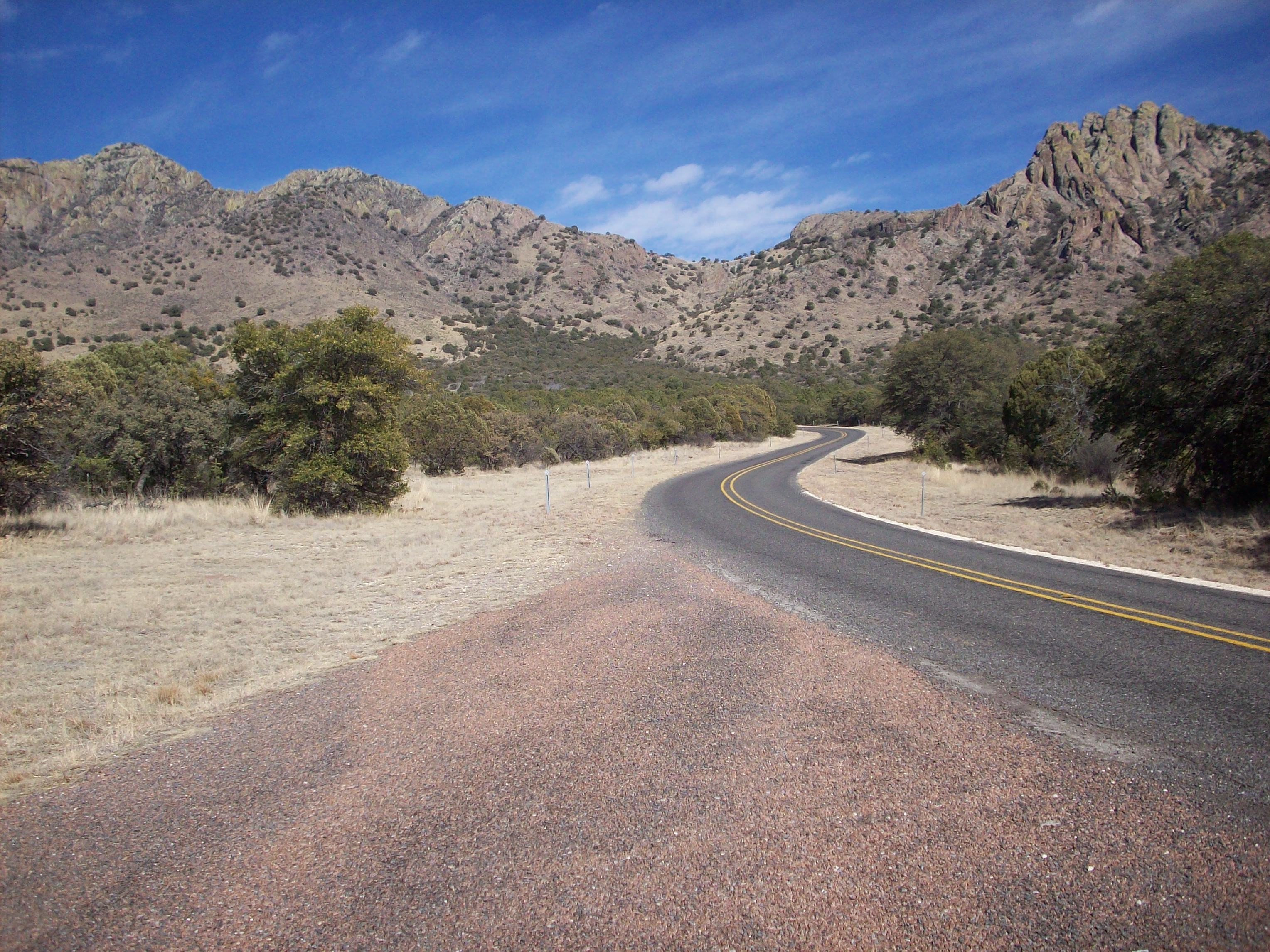 State Highway 166 approaching Sawtooth Mountain in western Jeff Davis County, Texas